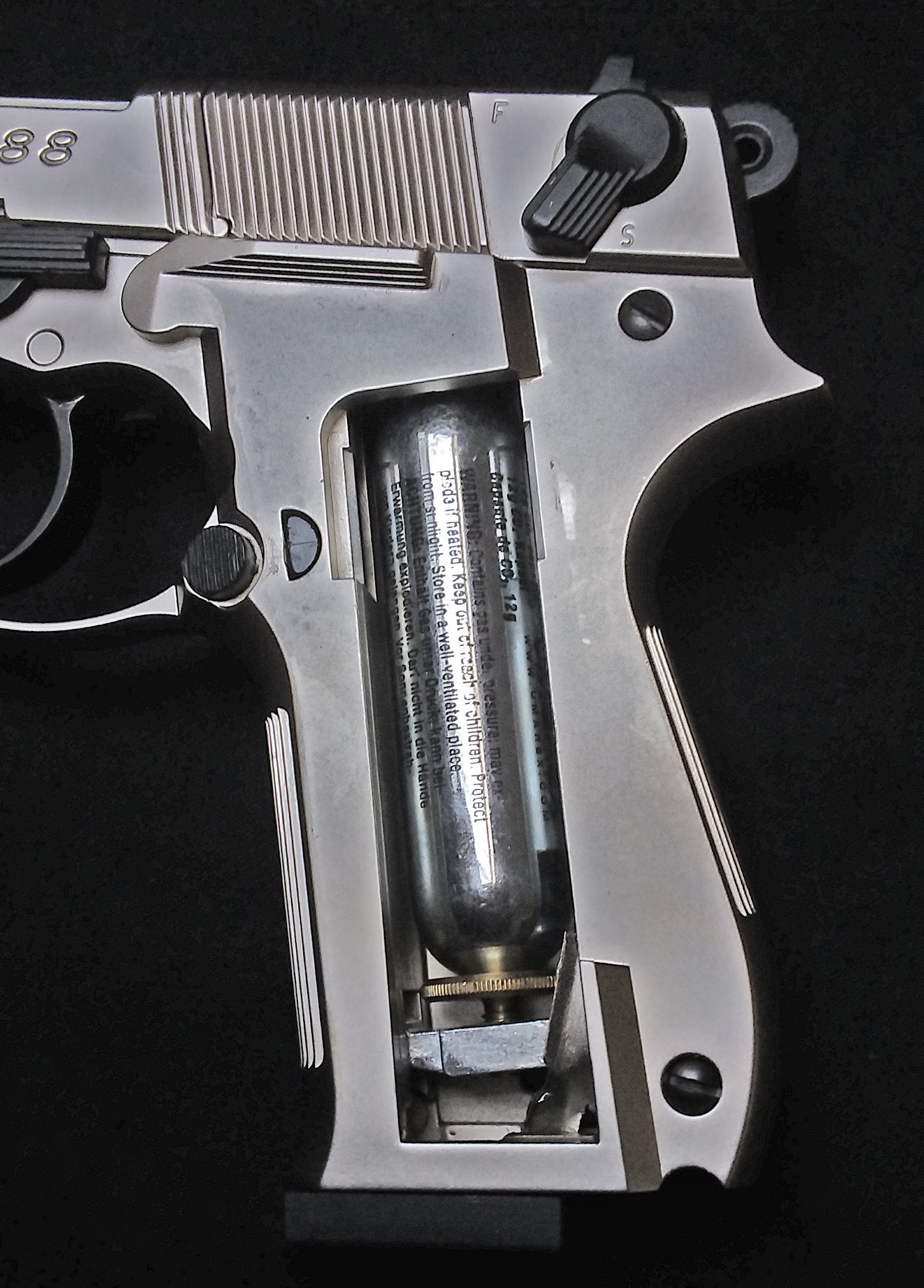 Co2-pistol "Walther CP88". Handle with inserted Co2-cartridge